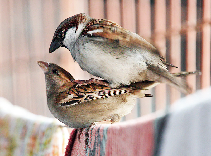 House Sparrows (Passer domesticus) copulating, in Kolkata, West Bengal, India.